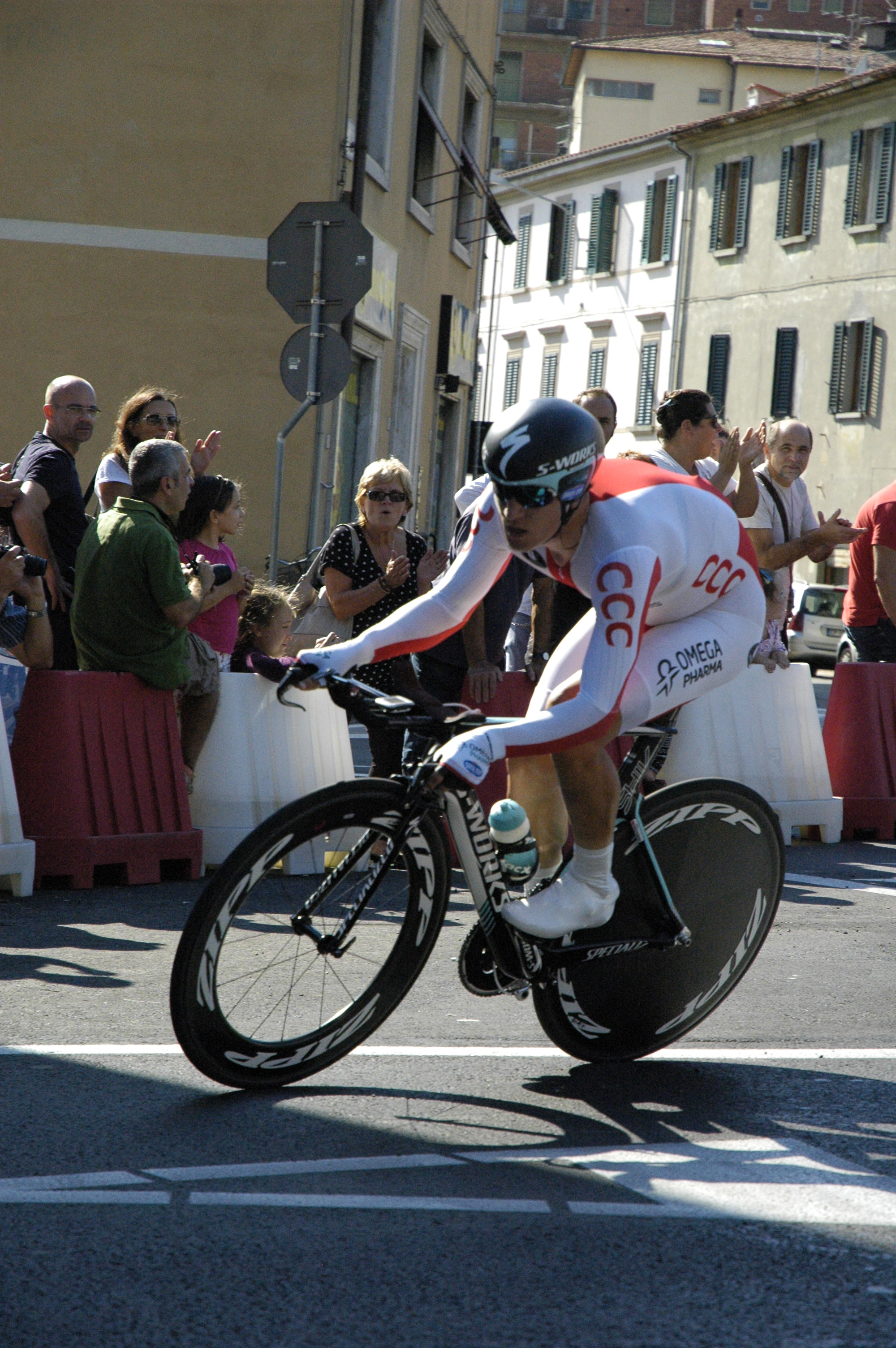 2013 UCI Road World Championships – Men's time trial